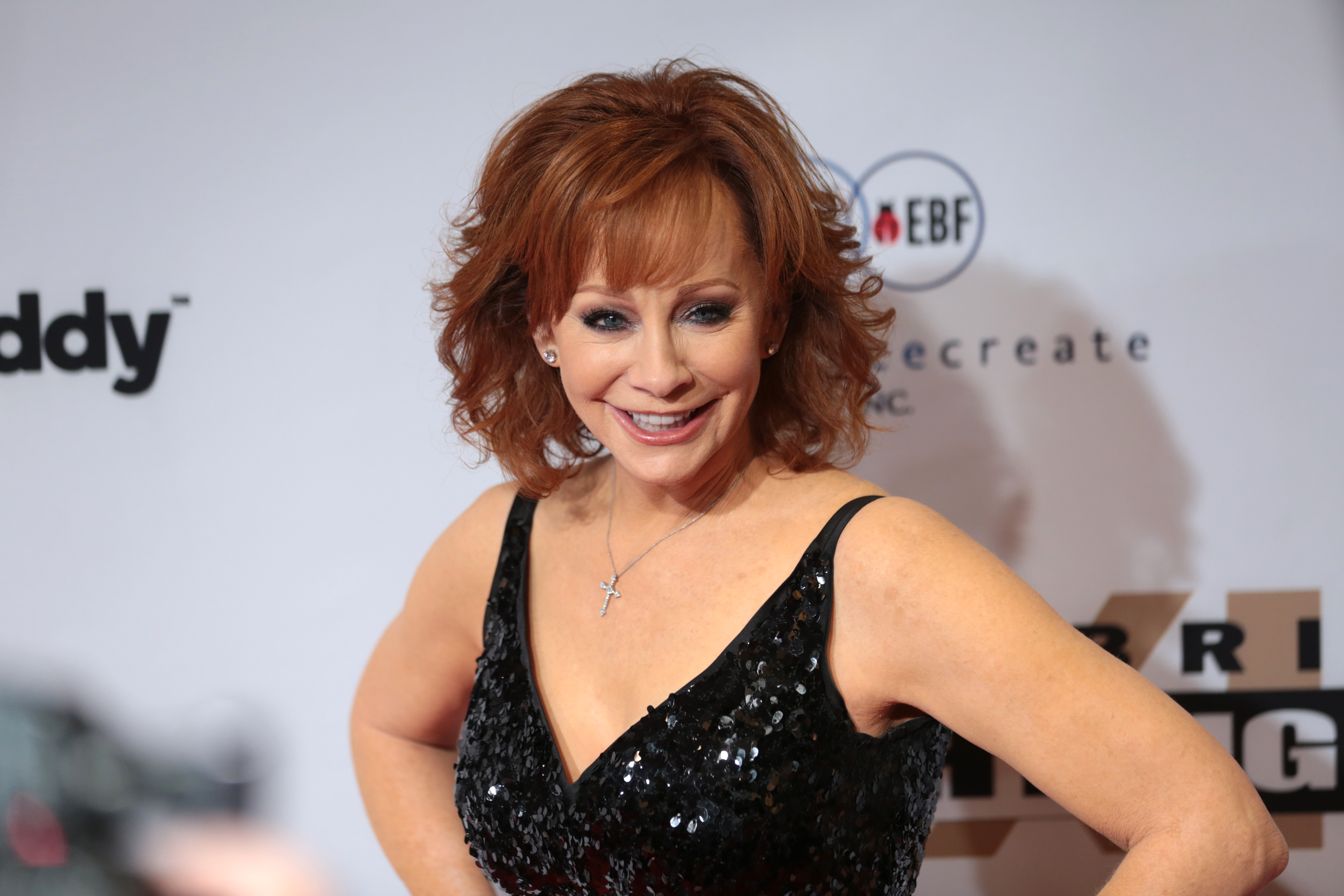 Reba McEntire on the red carpet at Celebrity Fight Night XXIII at the JW Marriott Desert Ridge Resort & Spa in Phoenix, Arizona.